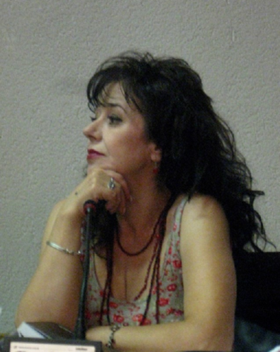 Биљана Станојевић - српска песникиња и списатељица. Рођена у Нишу, 28. марта 1966. године. Учесник је великог броја књижевних манифестација у Србији и иностранству.